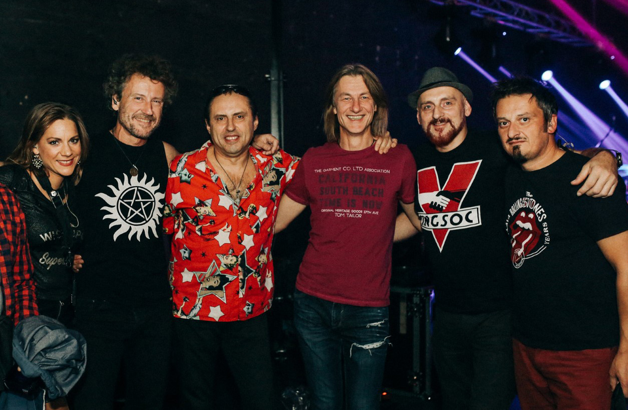 Zabranjeno pušenje at the Boogaloo concert in Zagreb, on 20 October 2017